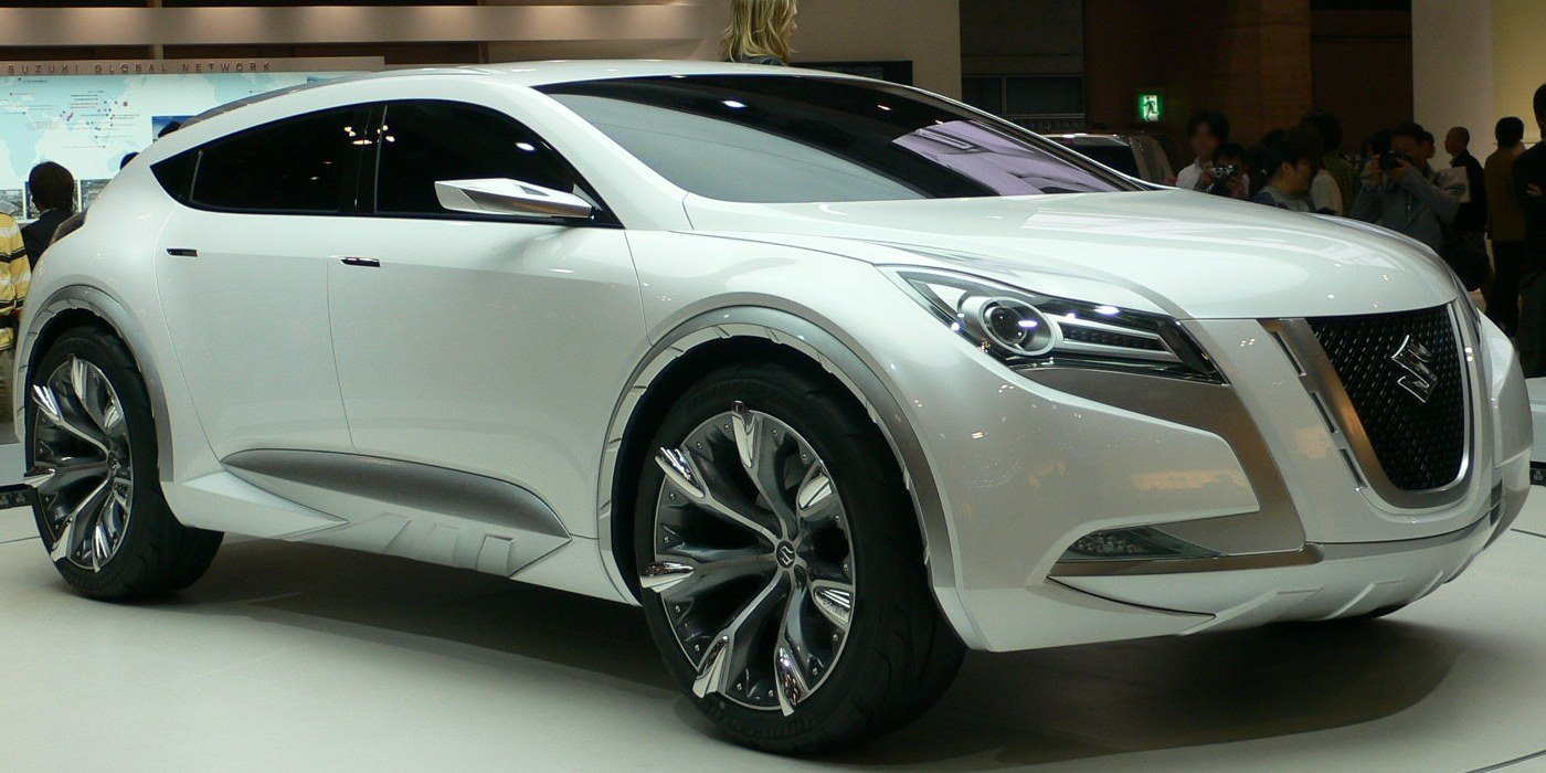 Suzuki_Kizashi2 photographed in Tokyo Motor Show 2007